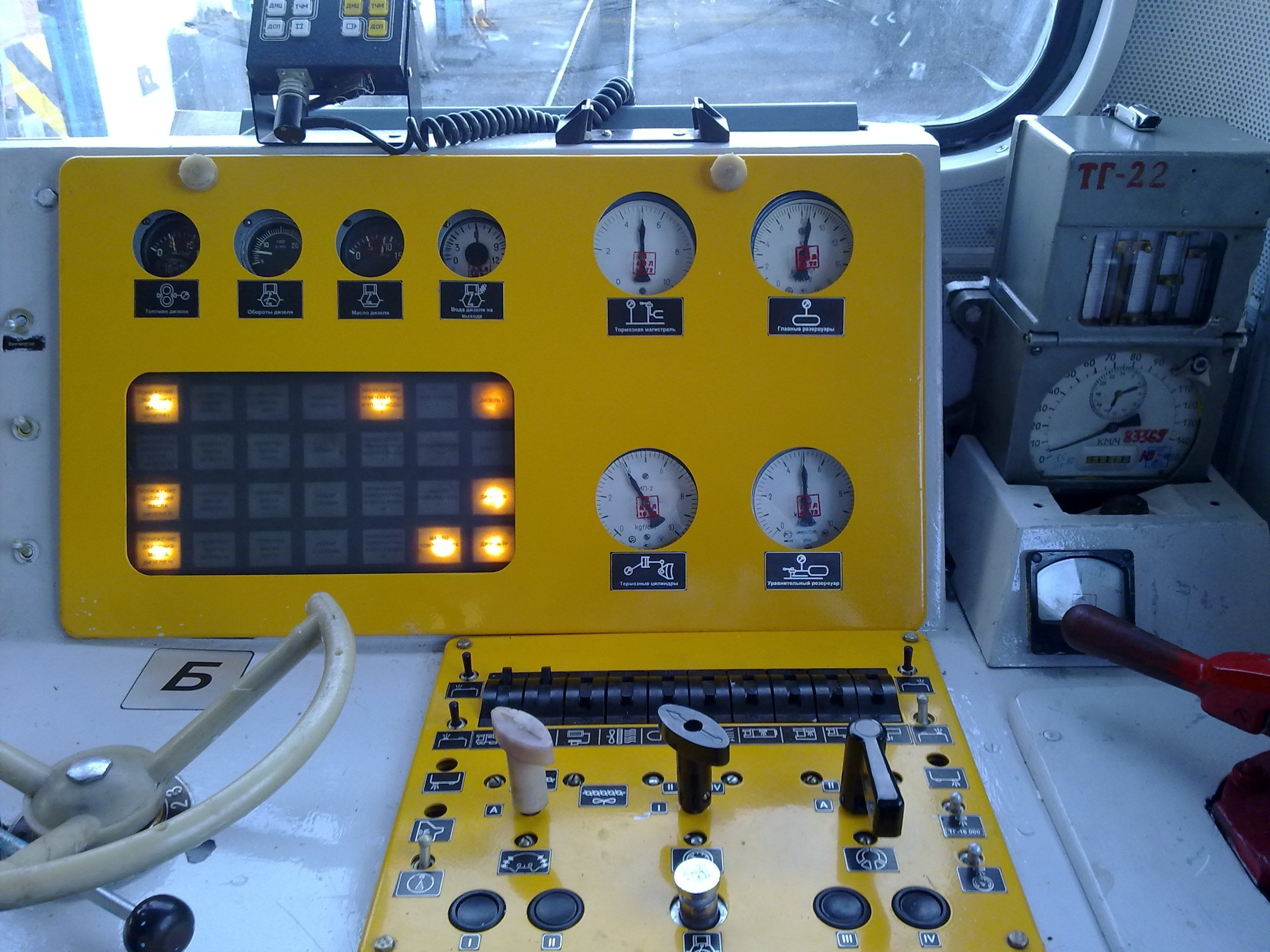 A control panel of a diesel locomotive TG16